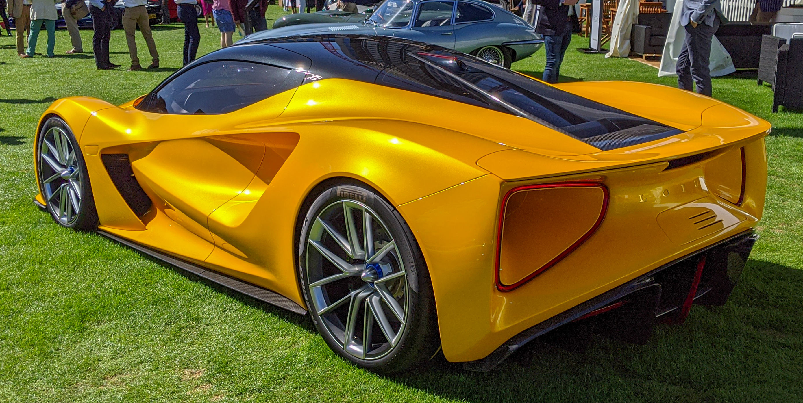 2020 Lotus Evija Rear Taken at the London Concours 2020